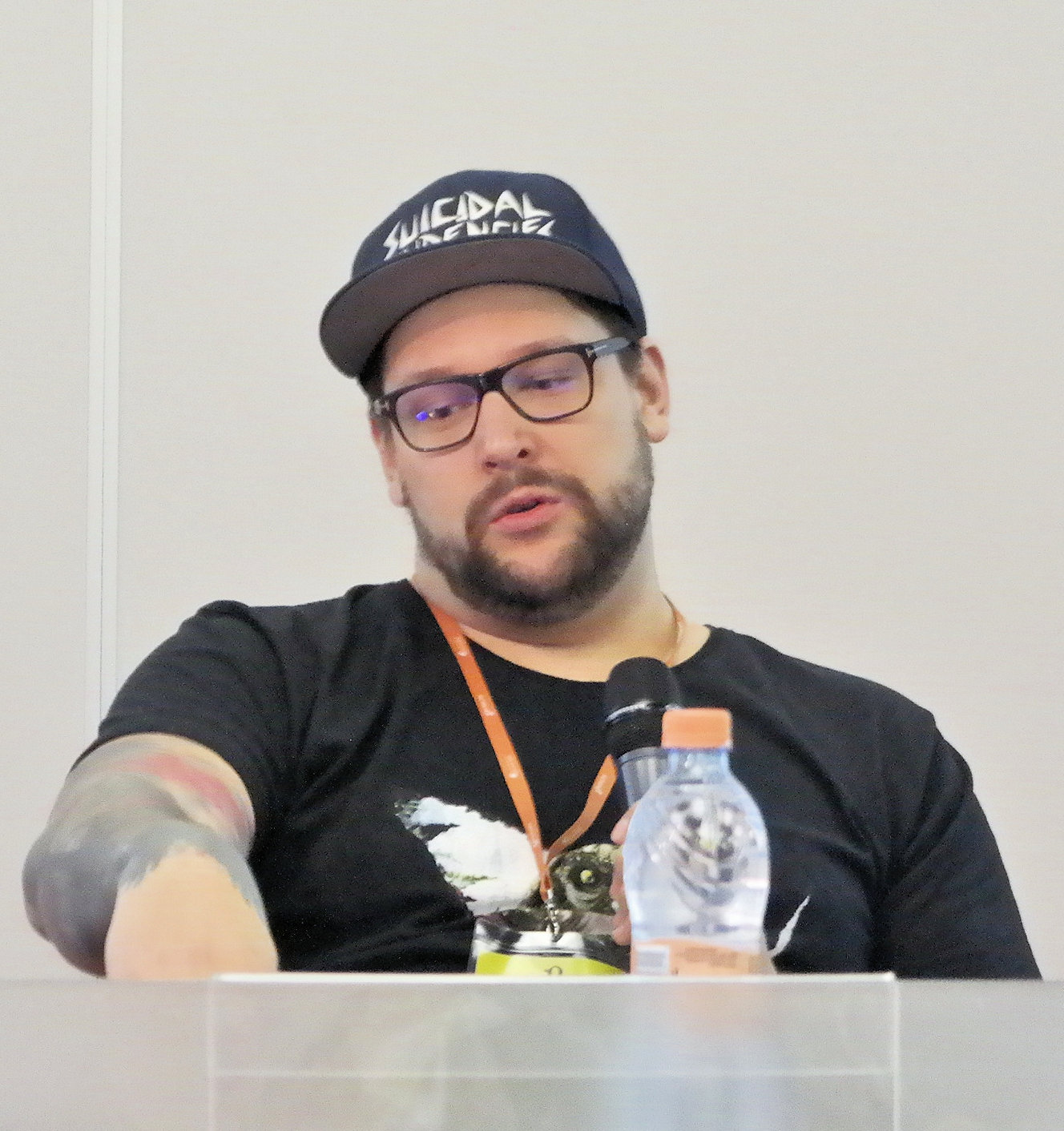 Timo Vuorensola - the director of Iron Sky , Multigenre Fan Convention Pyrkon 2017 in Poznań, Poland